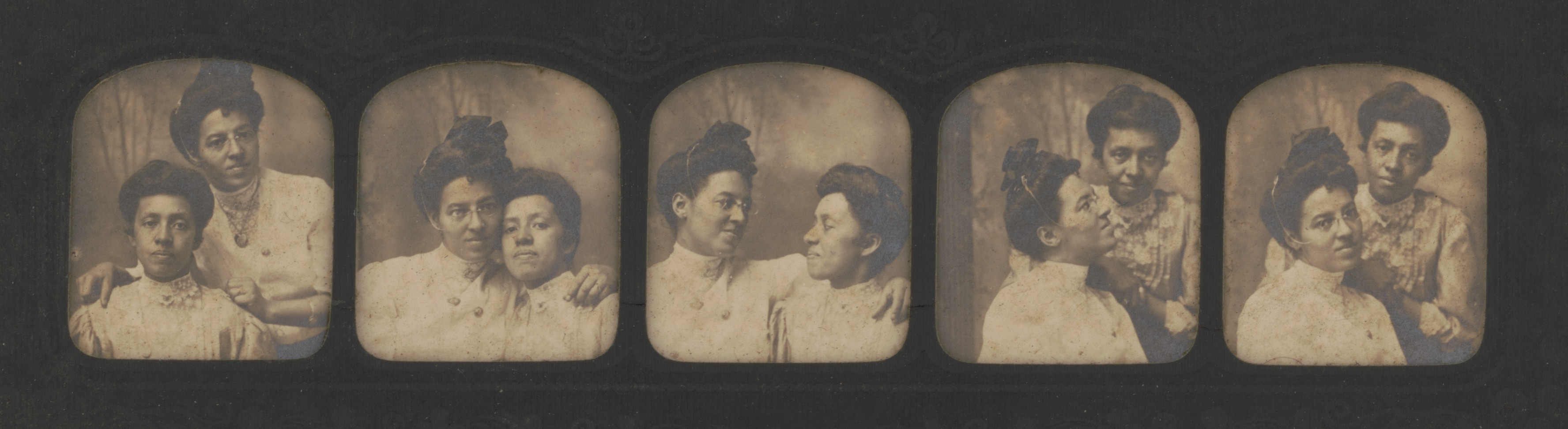 Call Number: Unprocessed in PR 13 CN 2013:179 [item] [P&P] Repository: Library of Congress Prints and Photographs Division Washington, D.C. 20540 USA